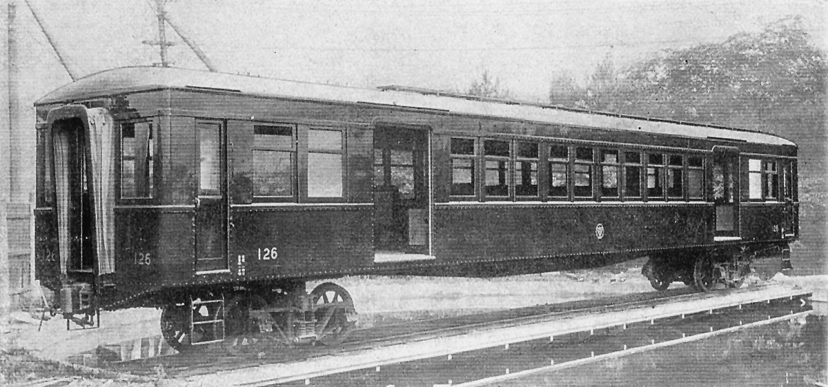 Shinkeihan Railway Type P-6B(Passenger car 6B) EMU No.126